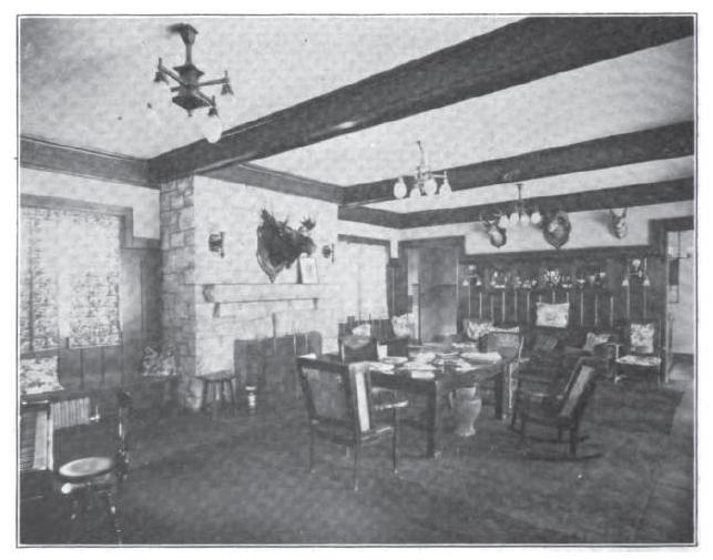 Club room of the Losantiville Country Club in Cincinnati, Ohio, United States, designed by Tietig and Lee.